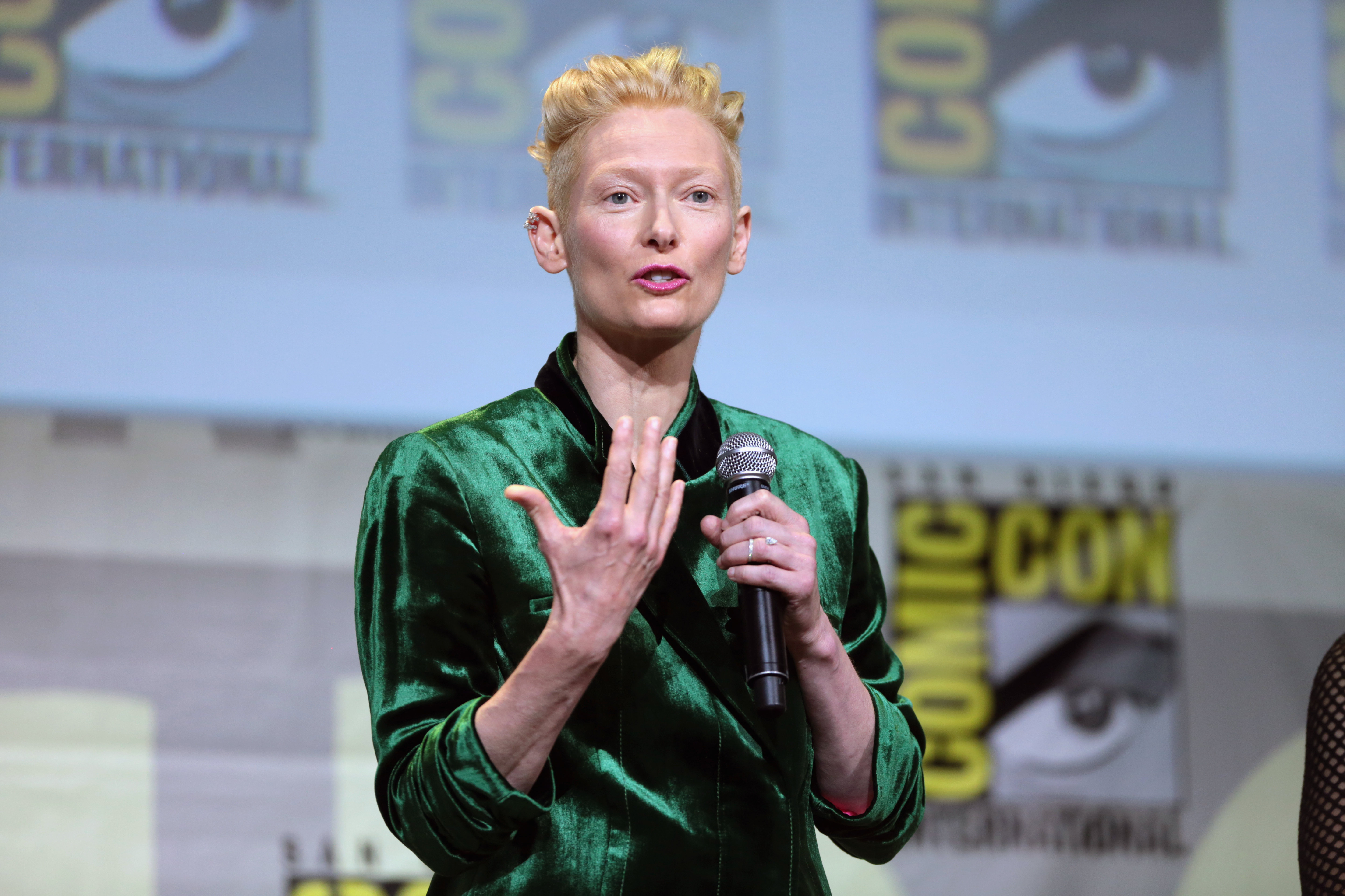 Tilda Swinton speaking at the 2016 San Diego Comic Con International, for "Doctor Strange", at the San Diego Convention Center in San Diego, California.